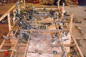 NTSB photo of post accident investigation